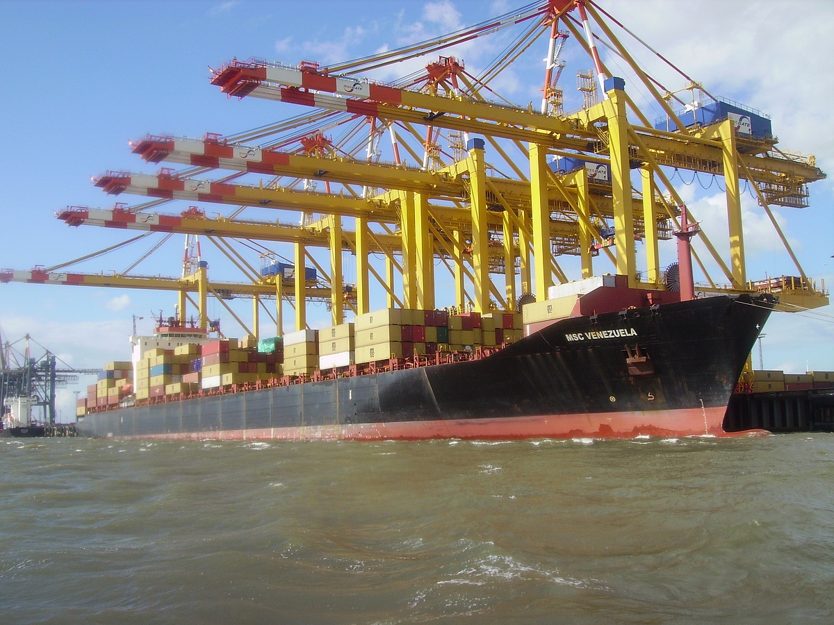 The container ship MSC Venezuela at the container terminal of Bremerhaven, Germany IMO Number: 9103697 MMSI Number: 235006130 Callsign: VQUM7 Length: 294 m Beam: 32 m